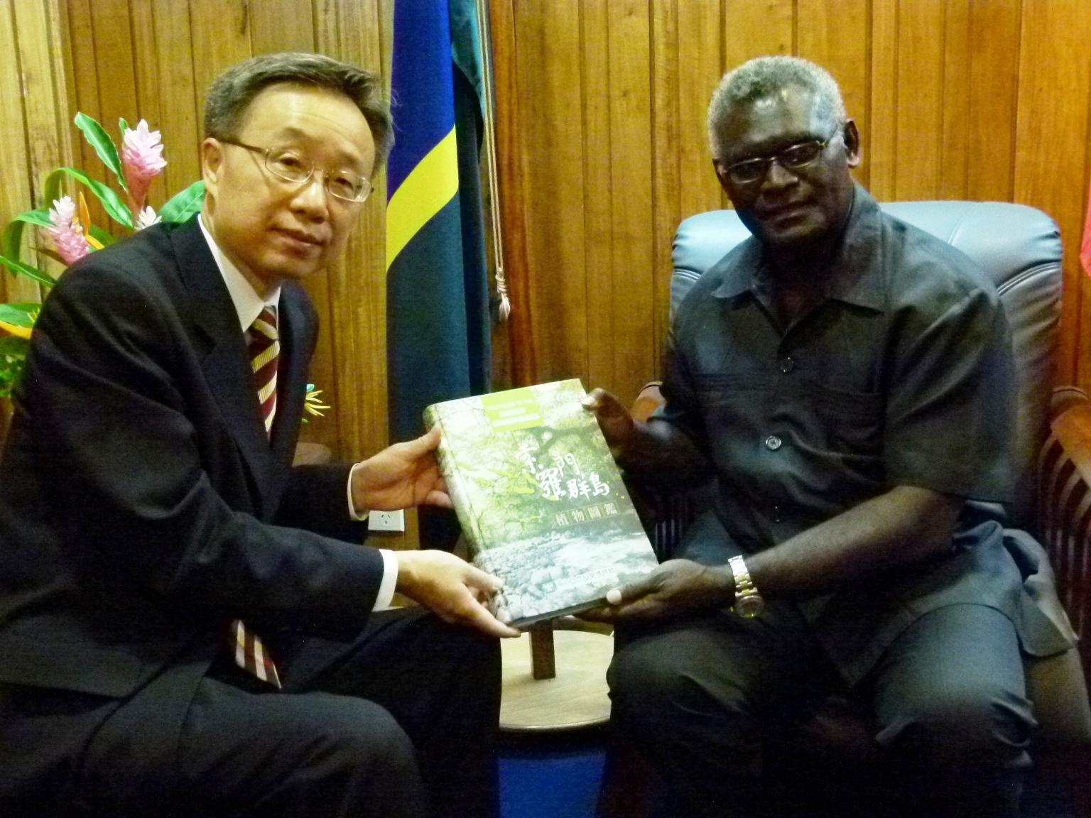 Ambassador Roger Tian-hung Luo (commonly known as Roger Luo) presents aTaiwanese-funded SI flora catalogue to Prime Minister Manasseh Sogavare in the final week of January 2017, in the Prime Minister's Office of the Solomon Islands.